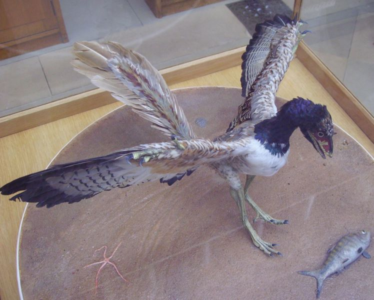 Archaeopteryx, Oxford Museum.